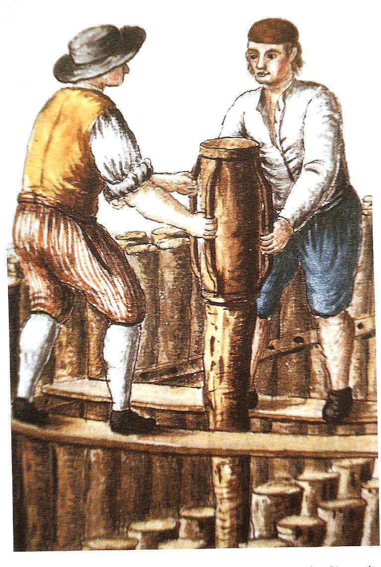 wood technology